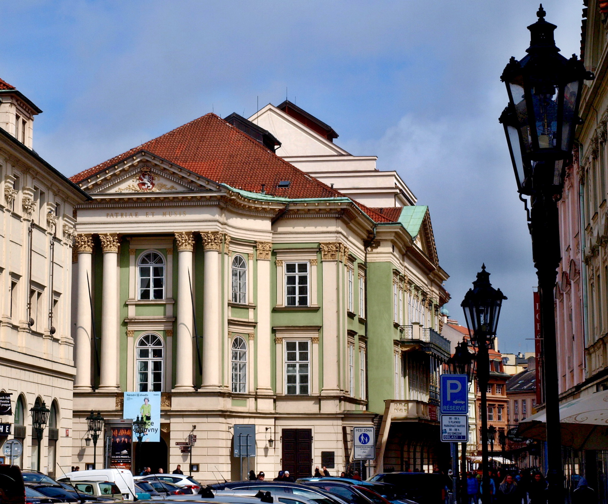 Estates´ Theatre in Prague, Bohemia